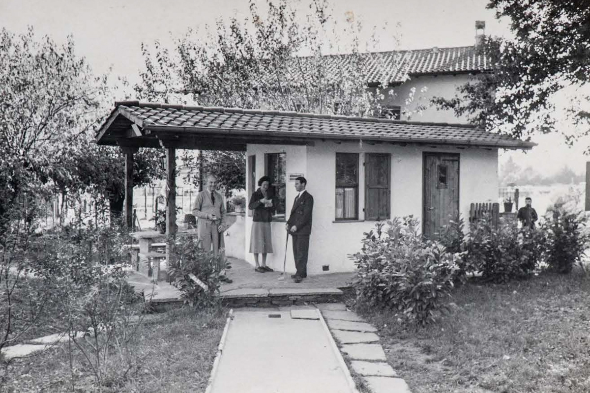 Minigolfanlage Ascona, historische Aufnahme